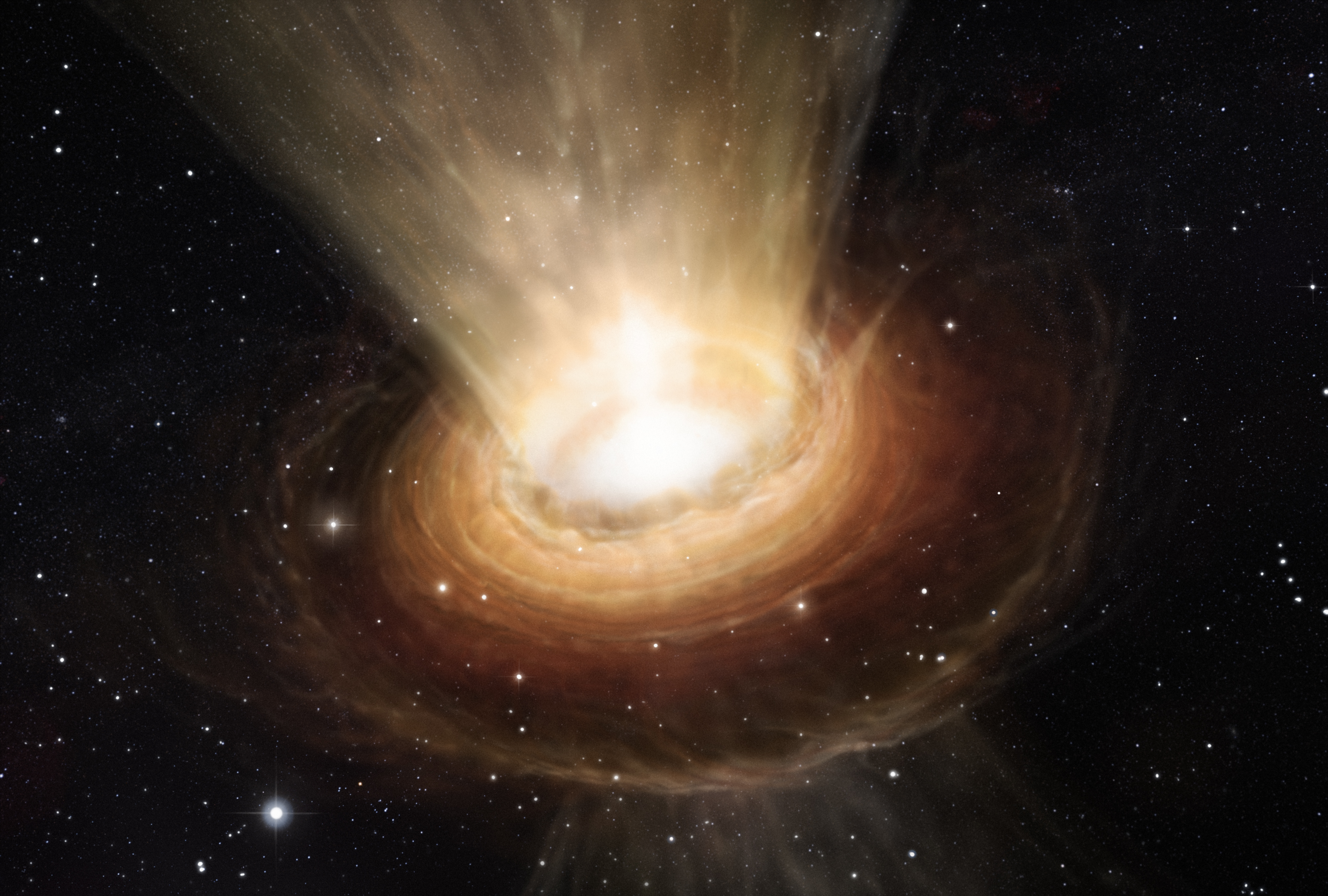 This artist’s impression shows the surroundings of the supermassive black hole at the heart of the active galaxy NGC 3783 in the southern constellation of Centaurus (The Centaur). New observations using the Very Large Telescope Interferometer at ESO’s Paranal Observatory in Chile have revealed not only the torus of hot dust around the black hole but also a wind of cool material in the polar regions.